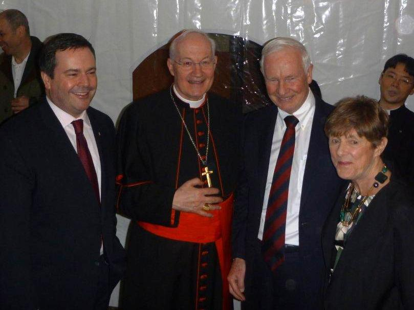 Jason Kenney, Marc Ouellet, and David Lloyd Johnston on March 18 2013 at a reception at the Pontifical Canadian College in Rome in preparation for the inauguration of Pope Francis.